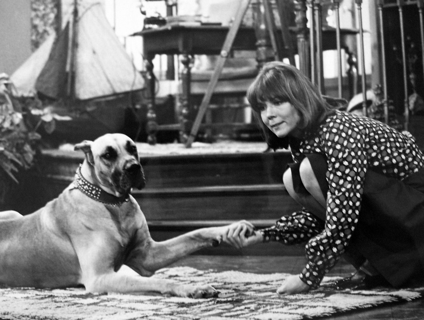 Photo of Diana Rigg as Diana Smythe and her roommate, Gulliver, from the television program Diana.